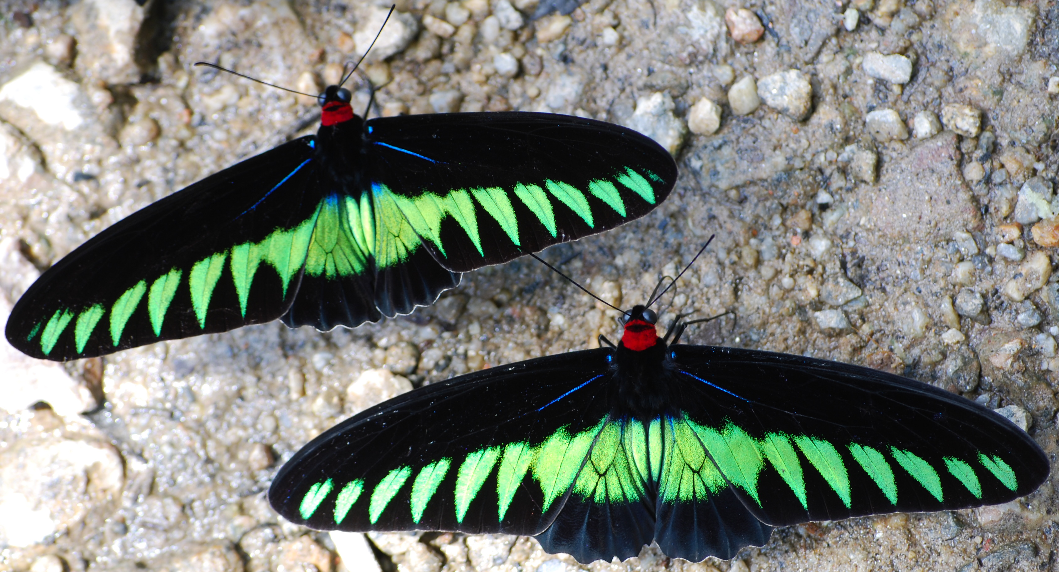 Trogonoptera brookiana - 2 male butterflies - shot near Kuala Woh, Malaysia, May 2008